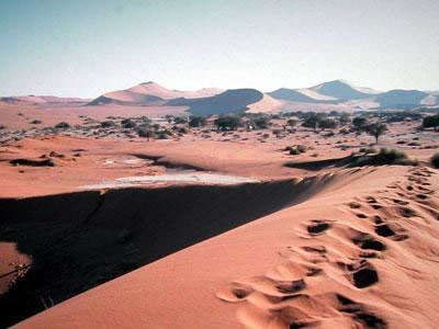 Picture of the Namib Desert at Sossusvlei in Namibia.